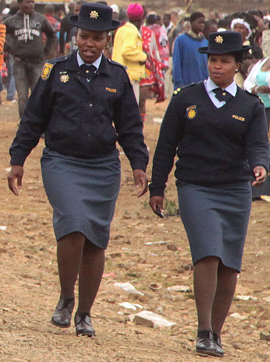 Zulu Reed Dance Ceremony. Once a year, in the heart of South Africa's Kingdom of the Zulu, thousands of people make the long journey to one of His Majesty’s, the King of the Zulu nation's royal residence at KwaNyokeni Palace. Here, in Nongoma, early every September month, young Zulu maidens will take part in a colourful cultural festival, the Royal Reed Dance festival - or Umkhosi woMhlanga in the Zulu language.